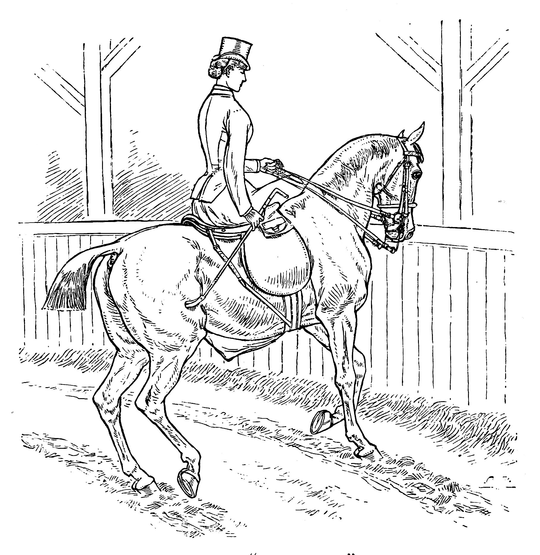 Image from book Horsemanship for Women by Theodore Hoe Mead